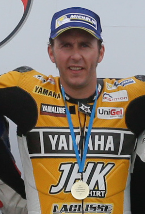 Carmelo Morales on the podium of the 2016 CEV Superbike final championship standings.